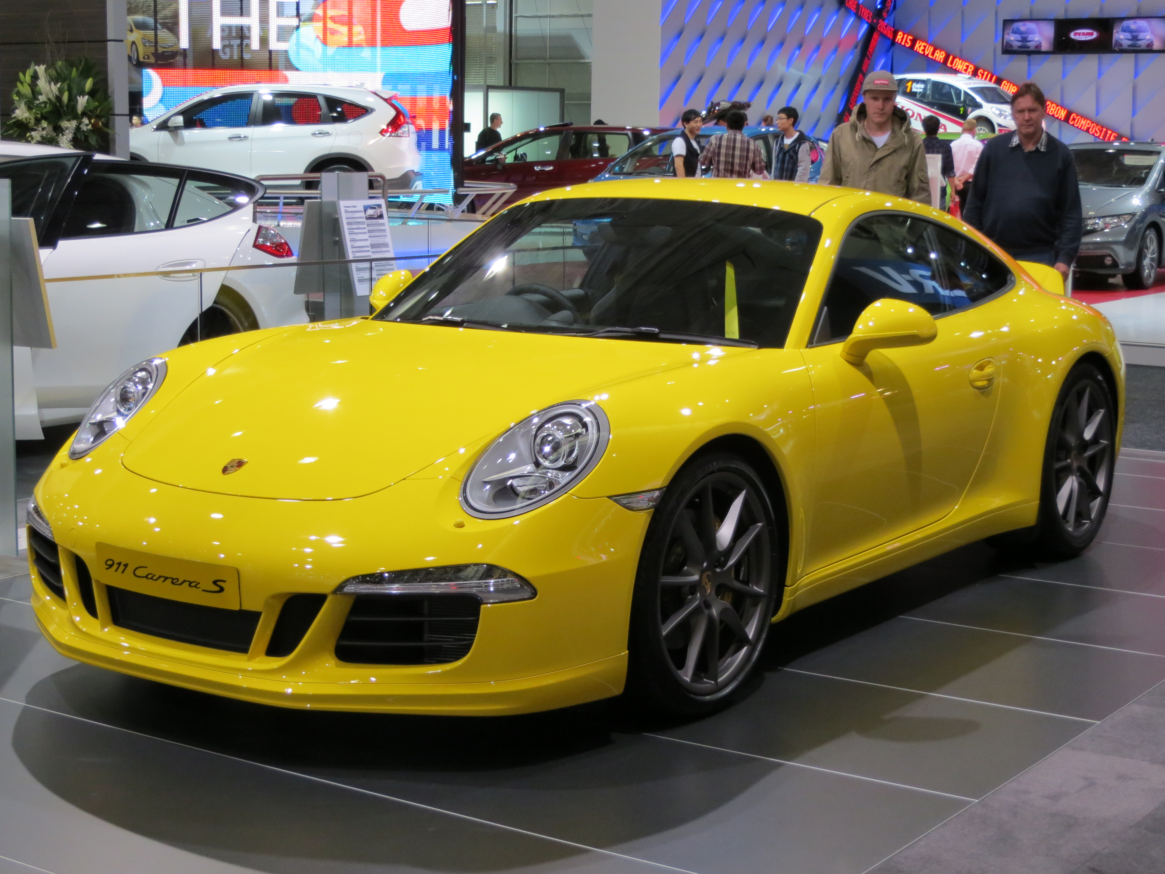 2012 Porsche 911 Carrera (991) S coupe. Photographed at the 2012 Australian International Motor Show, Sydney, New South Wales, Australia.